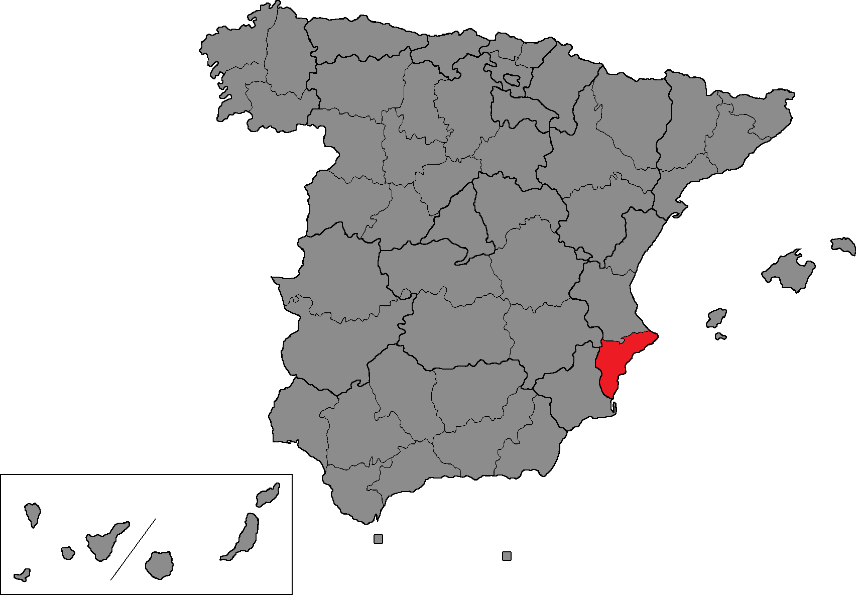 Spanish Congress of Deputies district of Alicante.